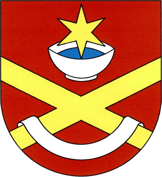 Municipal coat of arms of Hovorčovice village, Prague-East District, Czech Republic.